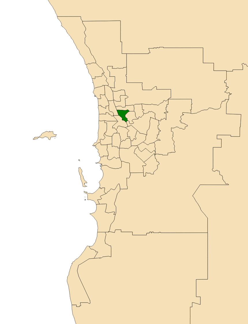 Location of the electoral district of Mount Lawley in the Perth metropolitan area, Western Australia as of the 2017 WA state election.